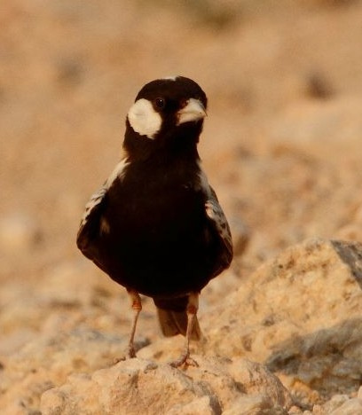 A male Grey-backed Sparrow-lark about 30 km south of Augrabies, Northern Cape, South Africa.